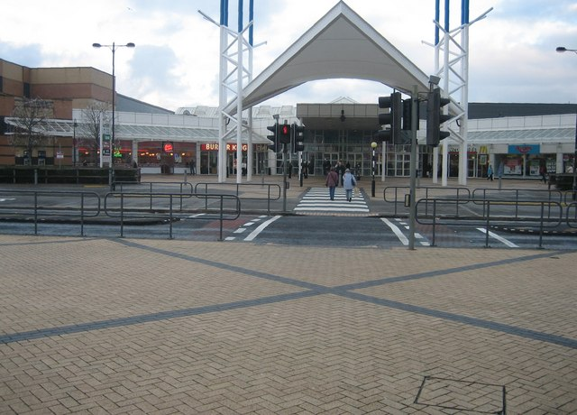 Blanchardstown Shopping Centre Main (Blue) entrance Blanchardstown Shopping Centre. Opened 1996 with a building area of 72,000m².